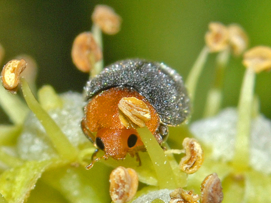 Cryptolaemus montrouzieri. Bogliasco, Genova, Italy